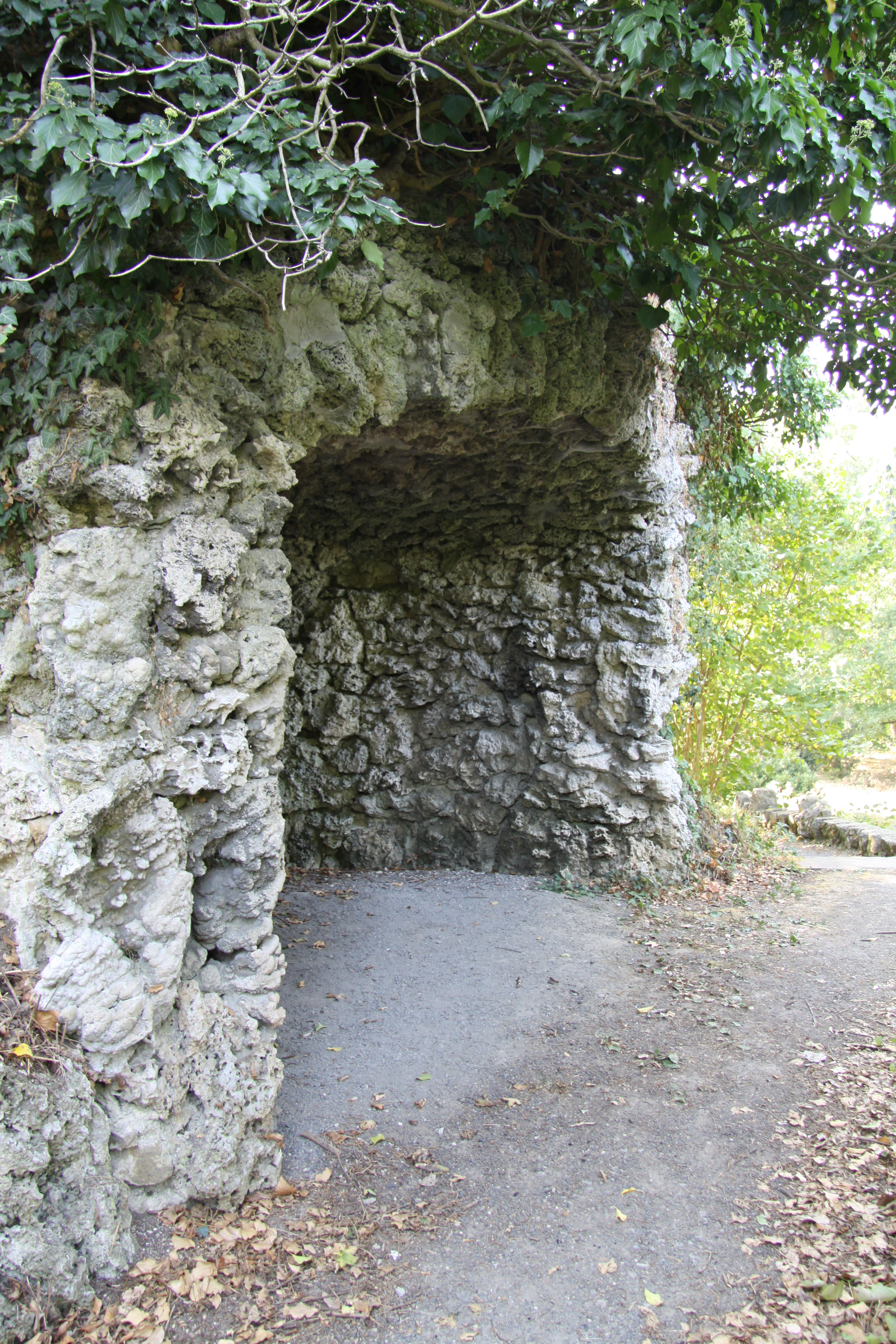 Grotto in the landscape park near Castle Destedt in Destedt in Lower Saxon